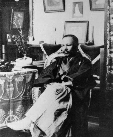 Ougai Mori visits the atelier of Kozaburo Takeishi in Sugamo.